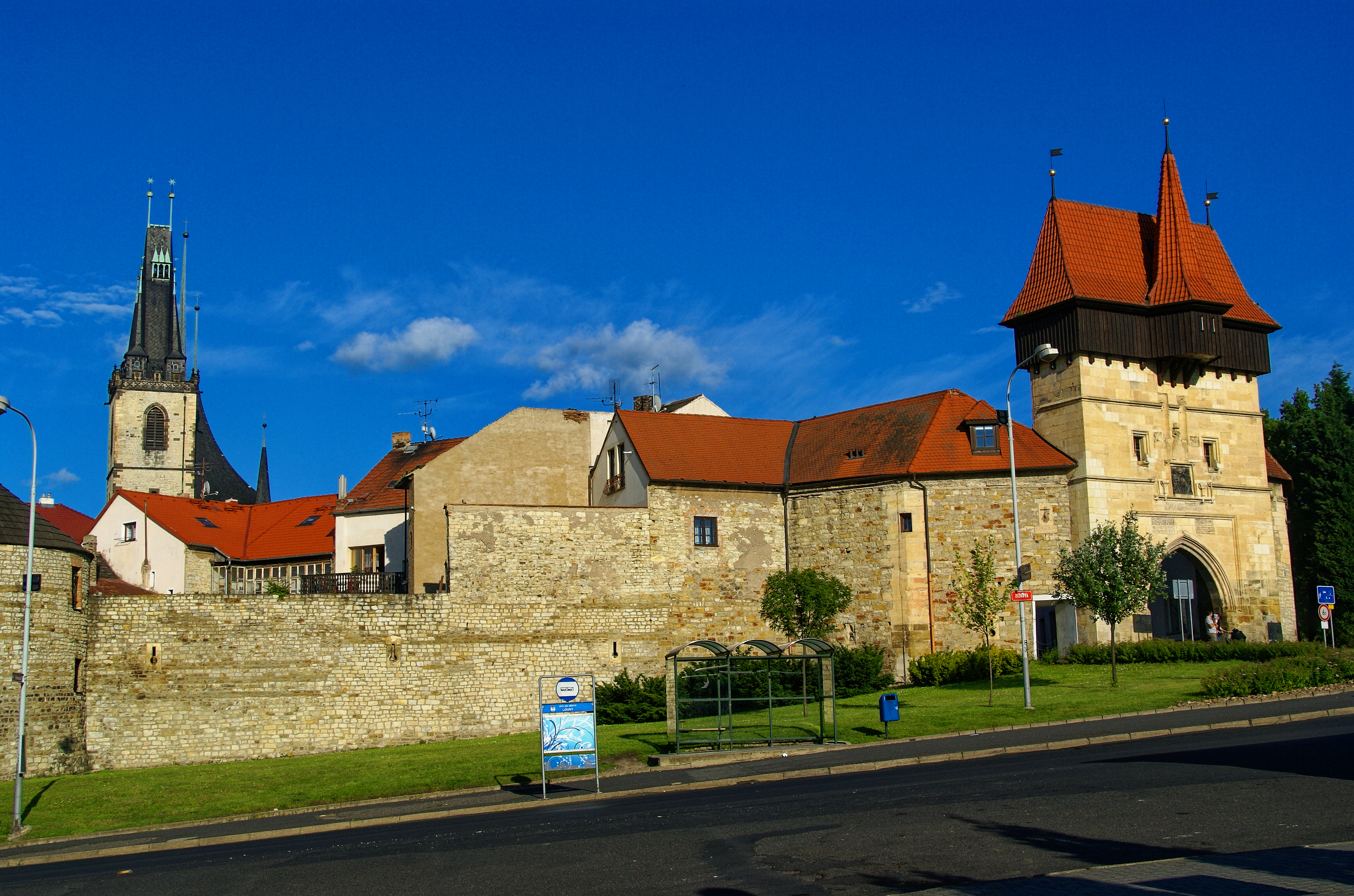 Louny - Žižkova - View East